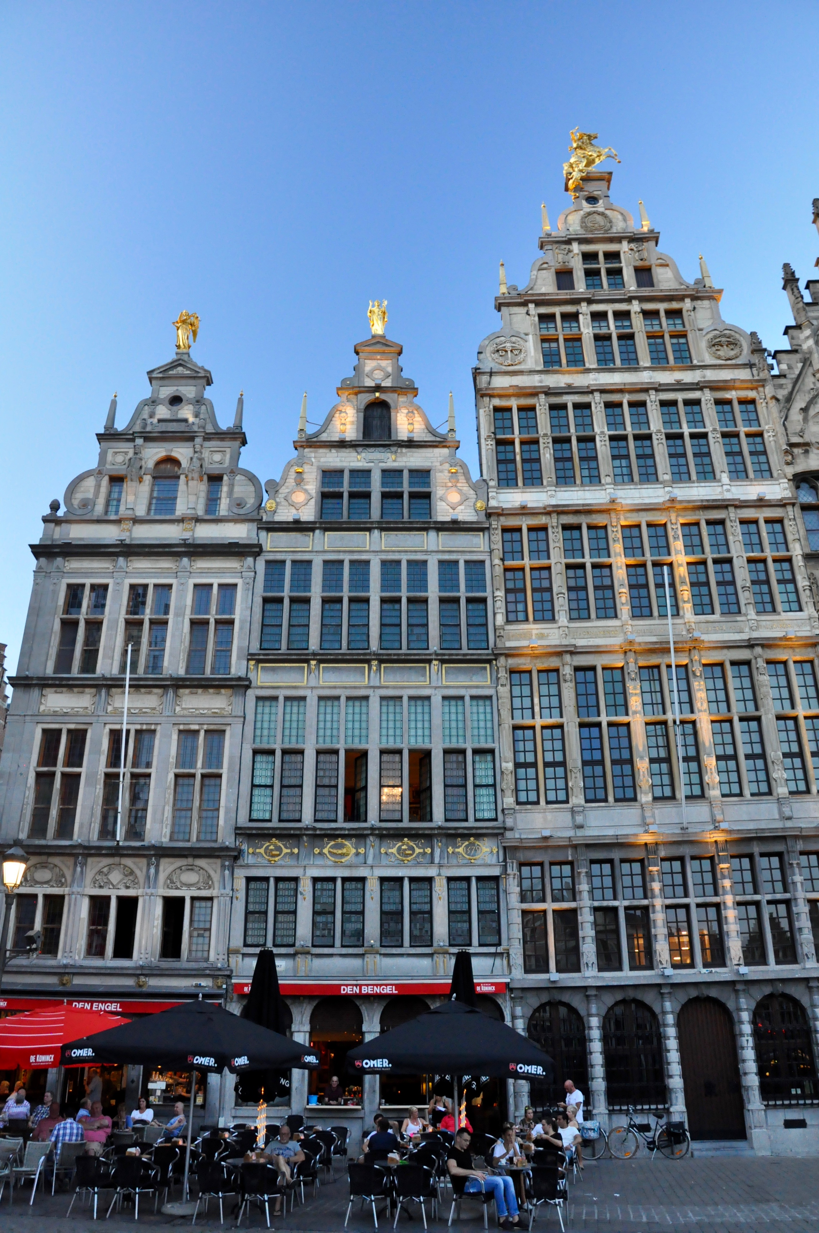 Protected monuments in Antwerp, Belgium, on the square Grote Markt. From left to right: Burgerhuis Witten Engel This is a photo of onroerend erfgoed number 4033 Ambachtshuis de Mouwe (alternative names: "de gulde Mouwe" or "het Cuypershuys")